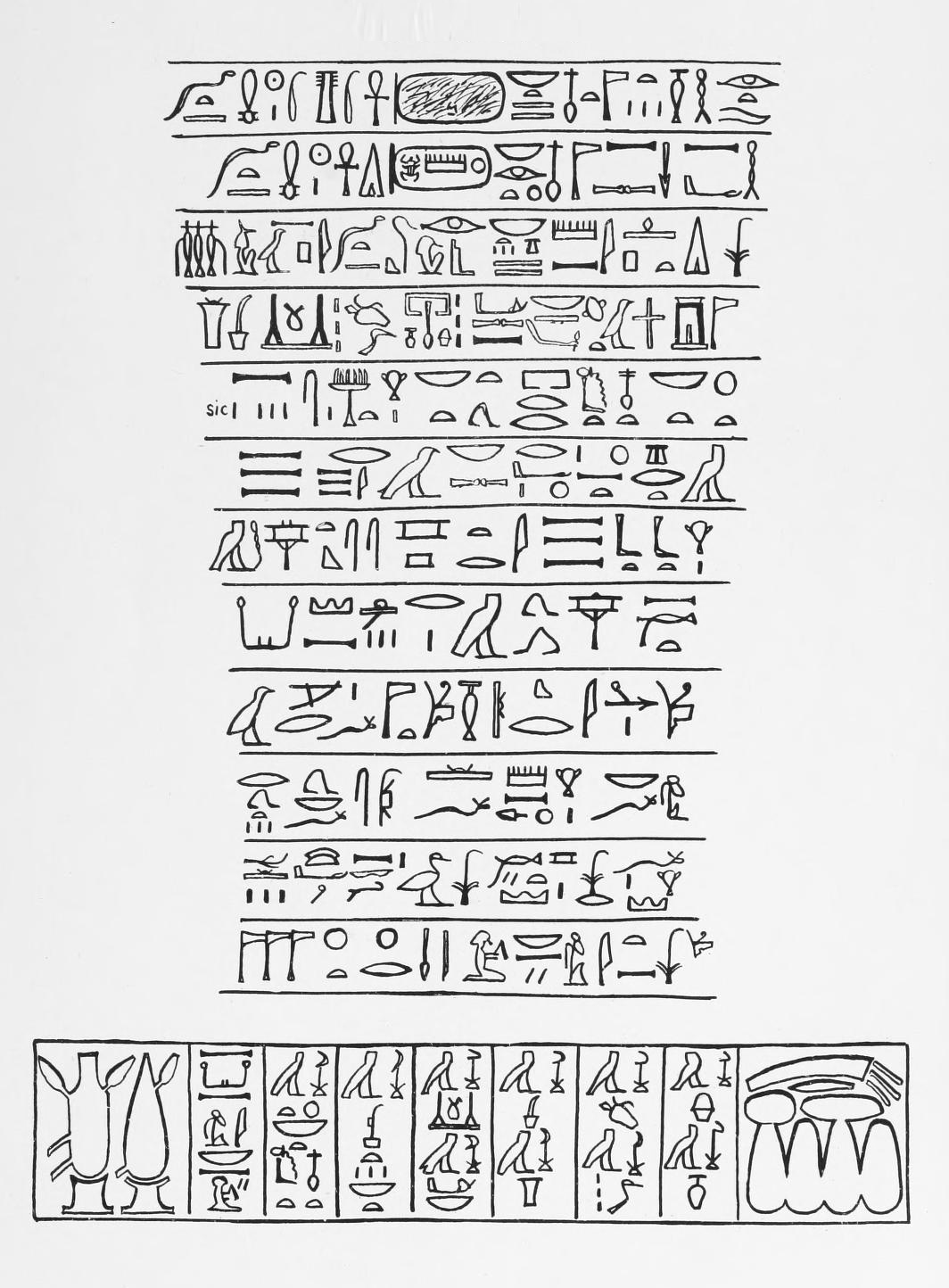 Inscription from a block statue of the ancient Egyptian Viceroy of Kush Inebny. Reign of Hatshepsut and Thutmose III, 18th Dynasty, New Kingdom. Unlike the one of Thutmose III (row 2), the cartouche of Hatshepsut (row 1) was later erased. British Museum EA1131.